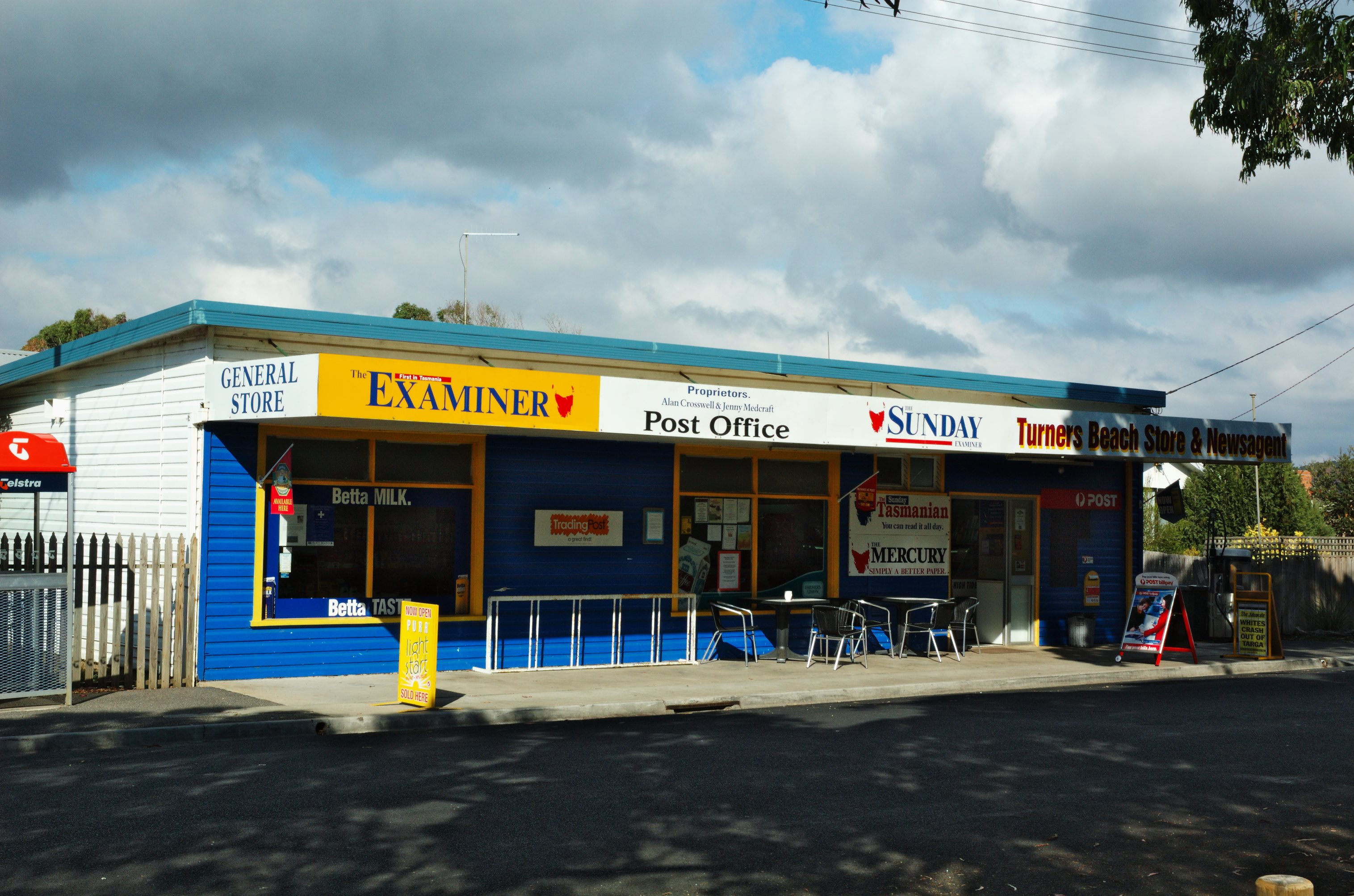 Turners Beach Store & Newsagent, and Post Office, Tasmania.